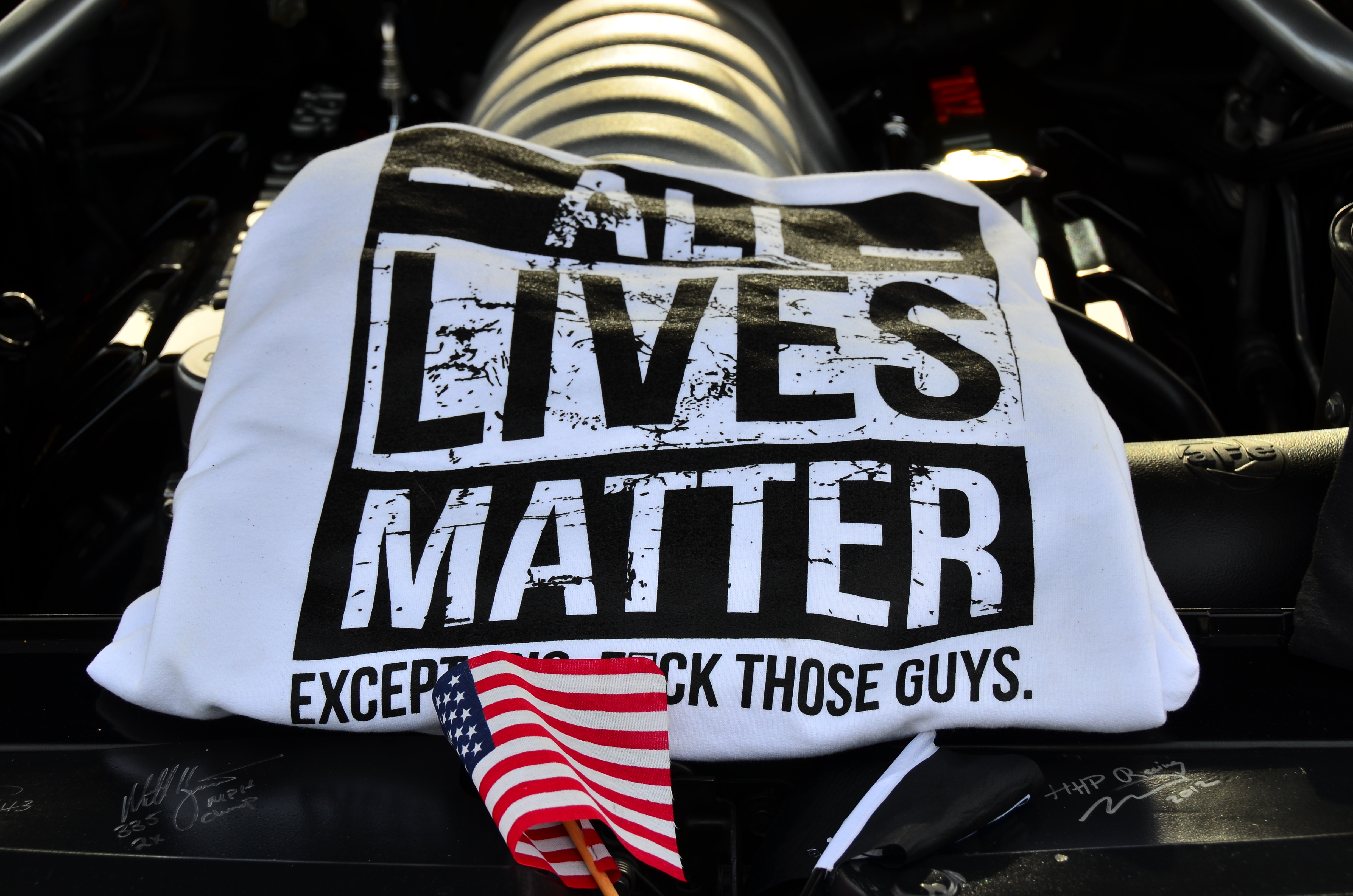 All Lives Matter